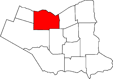 Map of Lincoln, Ontario